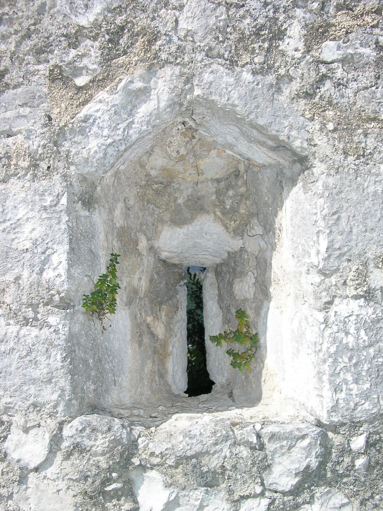 Vidoski, old town Stolac